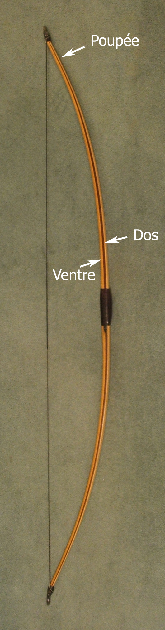 Lemonwood, purpleheart and hickory longbow (45 lbf at 28 inches). Photo taken by me, James Cram, and released into the public domain.